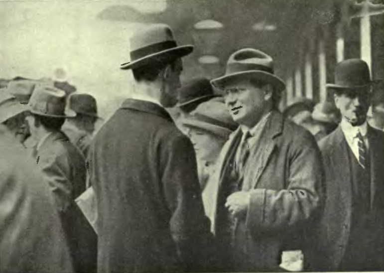 Maxim Litvinov about to be deported charged with propaganda, 1919.